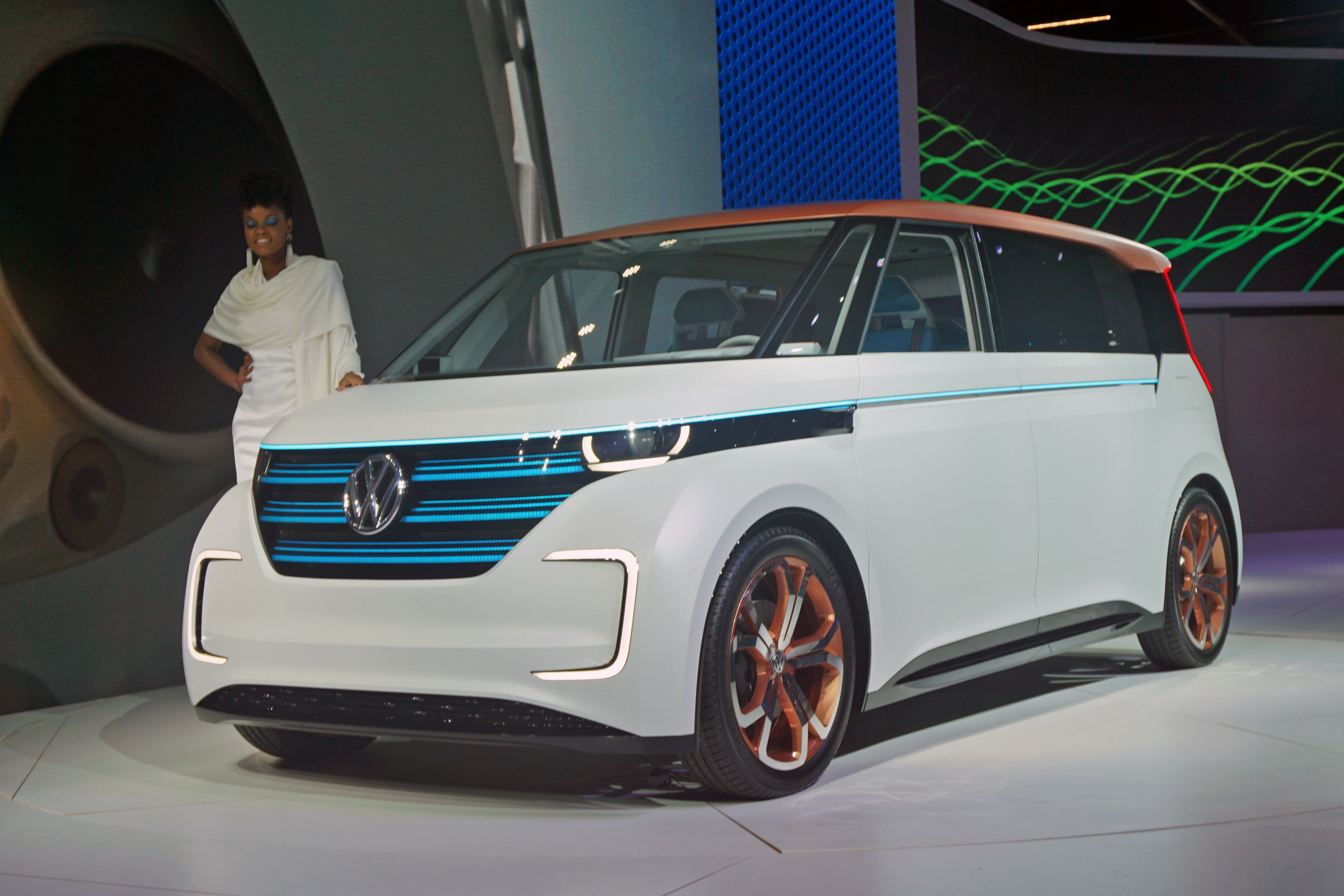 Volkswagen BUDD-e concept at the Salão Internacional do Automóvel 2016 São Paulo, Brazil